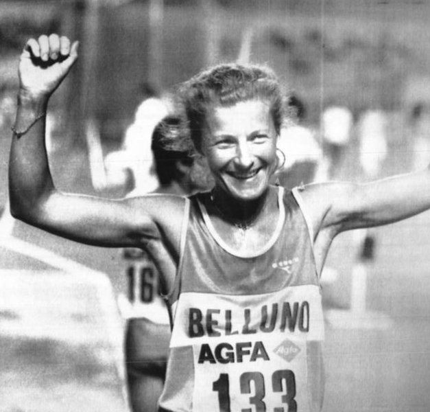 Agnese Possamai (left) after a race in Rome, Italy.